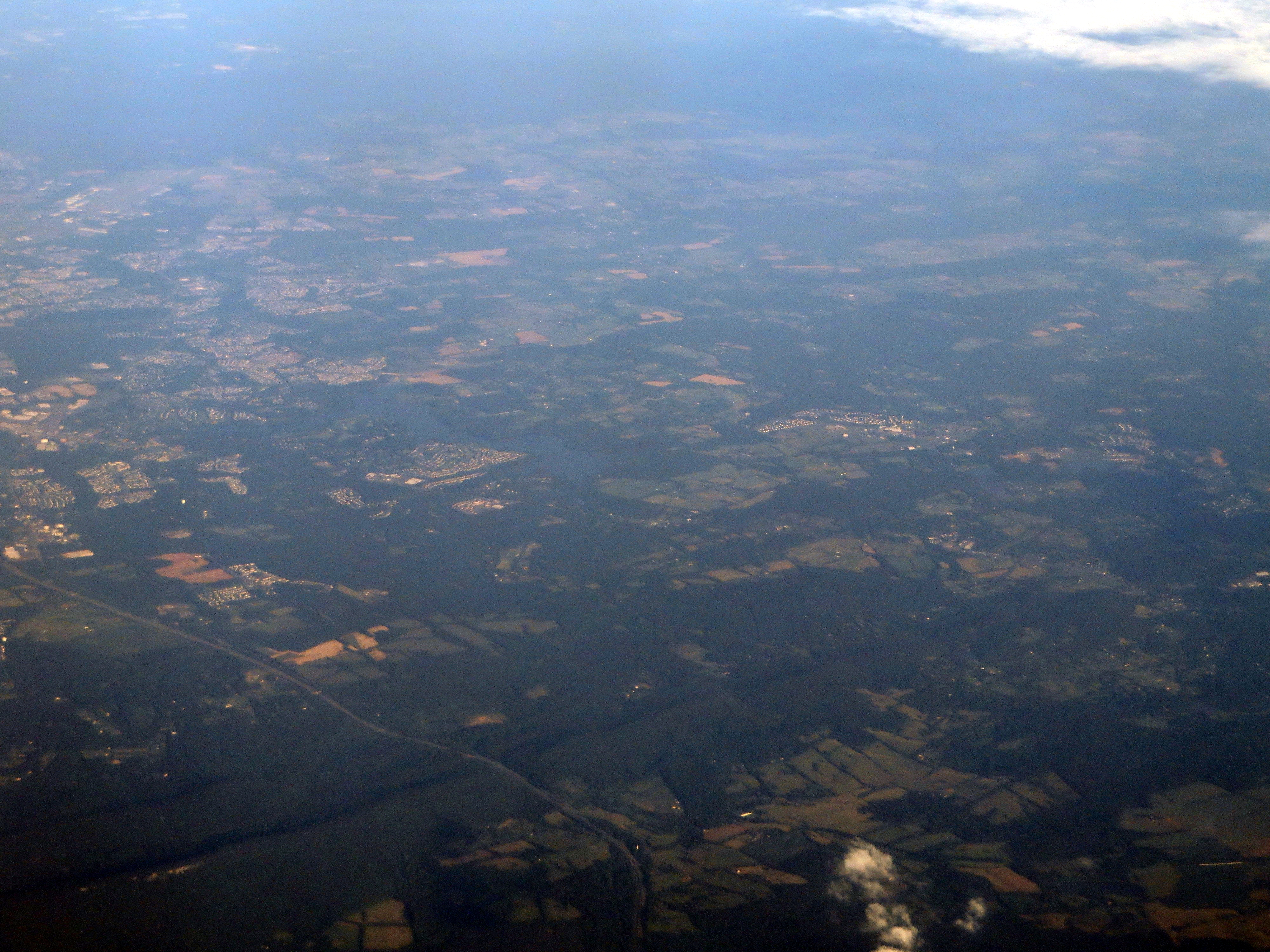 Lake Manassas is a 770-acre (310 ha) reservoir located in Prince William County, Virginia, to the southwest of Gainesville. It is owned and operated by the city of Manassas, Virginia, although it is located outside the city limits. The reservoir was created in the late 1960s to provide drinking water for area residents. Today it contributes to a regional water system which serves the cities of Manassas and Manassas Park, Virginia, and unincorporated areas of Prince William County. Several golf clubs have courses along the banks, including Stonewall Golf Club, Robert Trent Jones Golf Club and Virginia Oaks Golf Club.